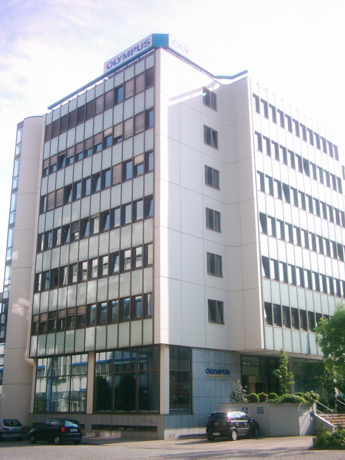 Olympus, Wendenstraße, Hamburg-Hammerbrook, Germany.